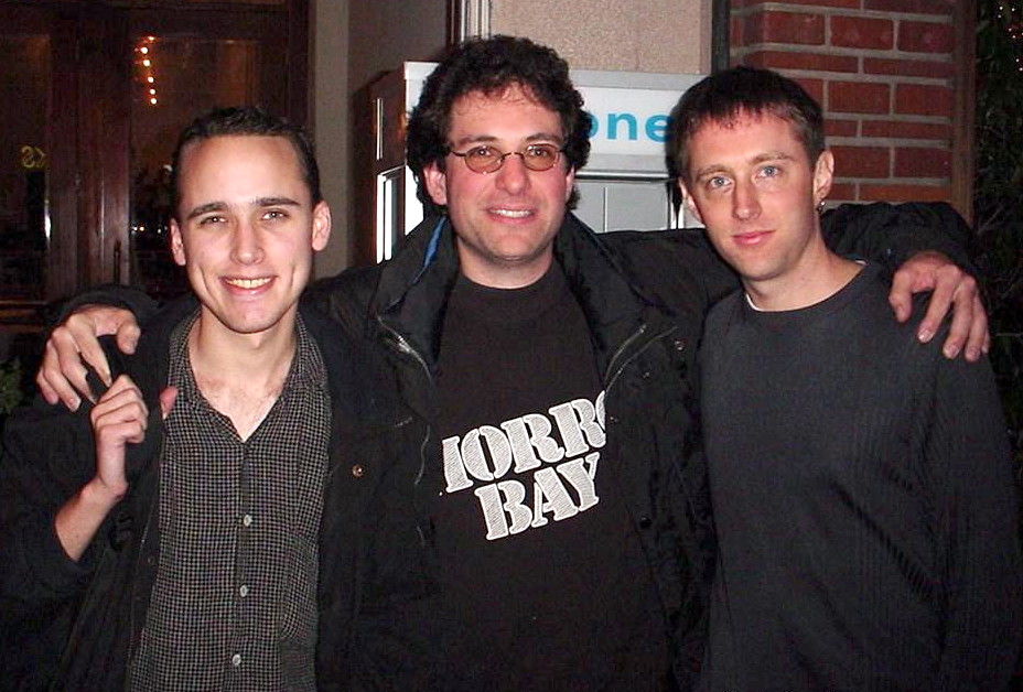 based on Image:Lmp.jpg. Group photo of Adrian Lamo, Kevin Mitnick, and Kevin Lee Poulsen circa 2001.